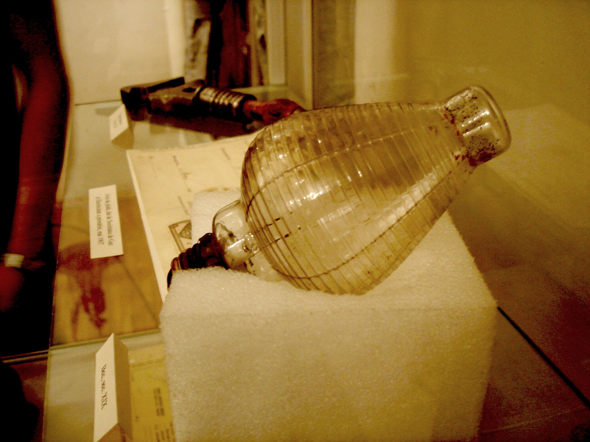 A 19th century light bulb that once lighted downtown Bucharest. It's exposed at the Bucharest City Museum